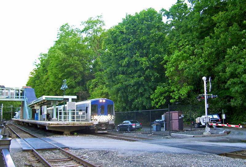 Photographed by Daniel Case 2006-06-10